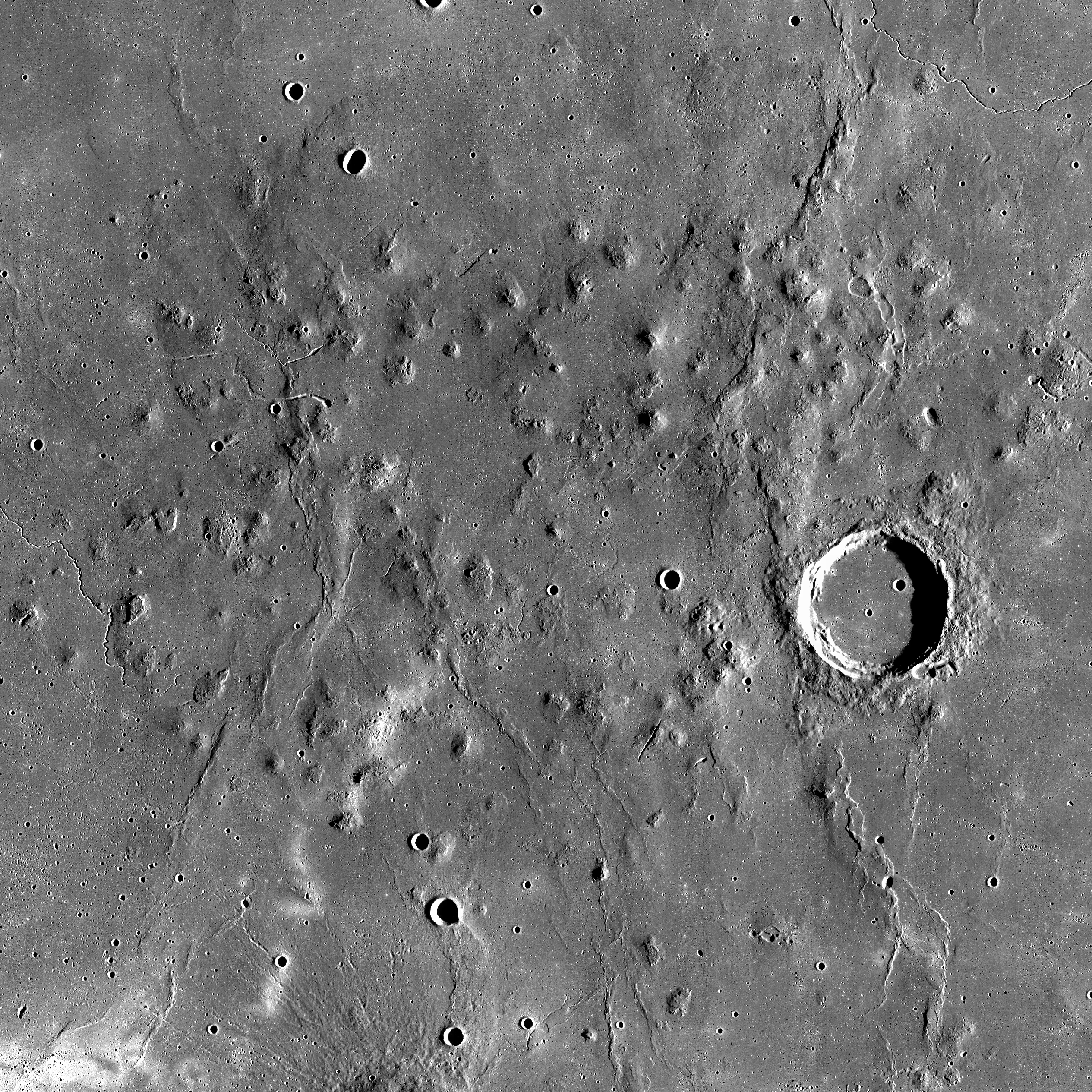 Marius Hills, a group of volcanoes in Oceanus Procellarum on the Moon. Crater Marius is seen at the right. Mosaic of photos by Lunar Reconnaissance Orbiter, made with Wide Angle Camera. Size of the image is 300×300 km, north is up.